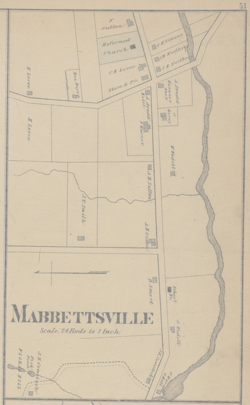 Maps depicting Dover (Township); Mabbettsville (Village); Hopewell Junction (Village)